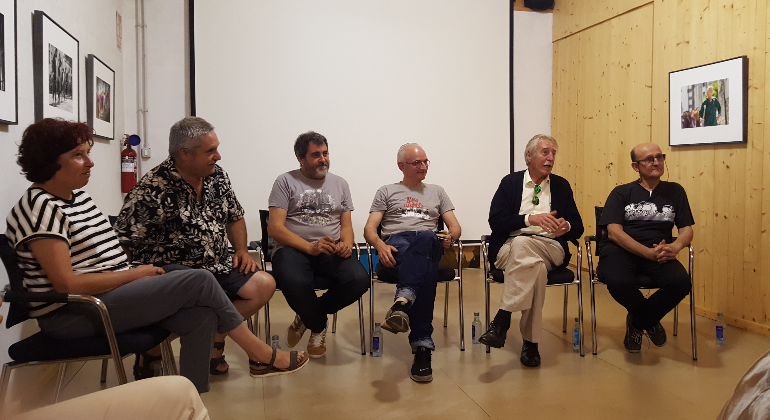 Mesa Forum on the film Dantza. 2019-06-22